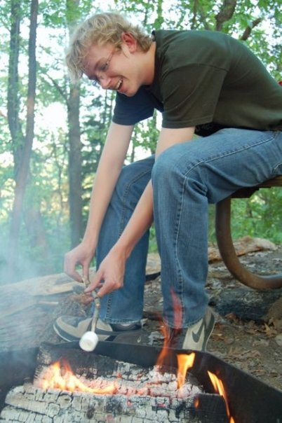 A picture of a man (User:MarkTraceur, in fact) roasting a marshmallow over a low campfire.